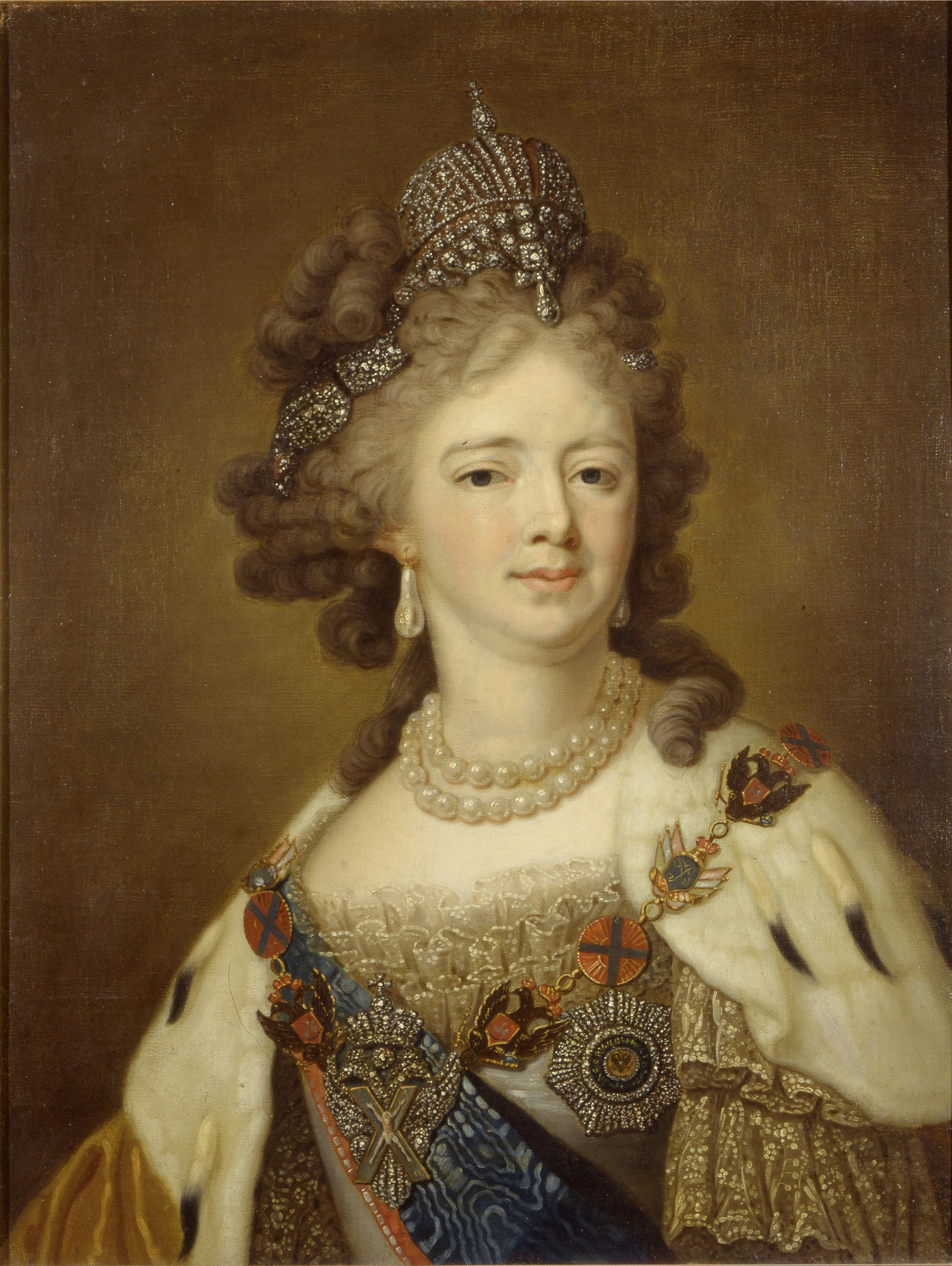 Portrait of Empress Maria Fyodorovna. Unknown, after Louise Élisabeth Vigée Le Brun. Ministry of Culture of the Russian Federation, via Google Cultural Institute. Early 19th century.